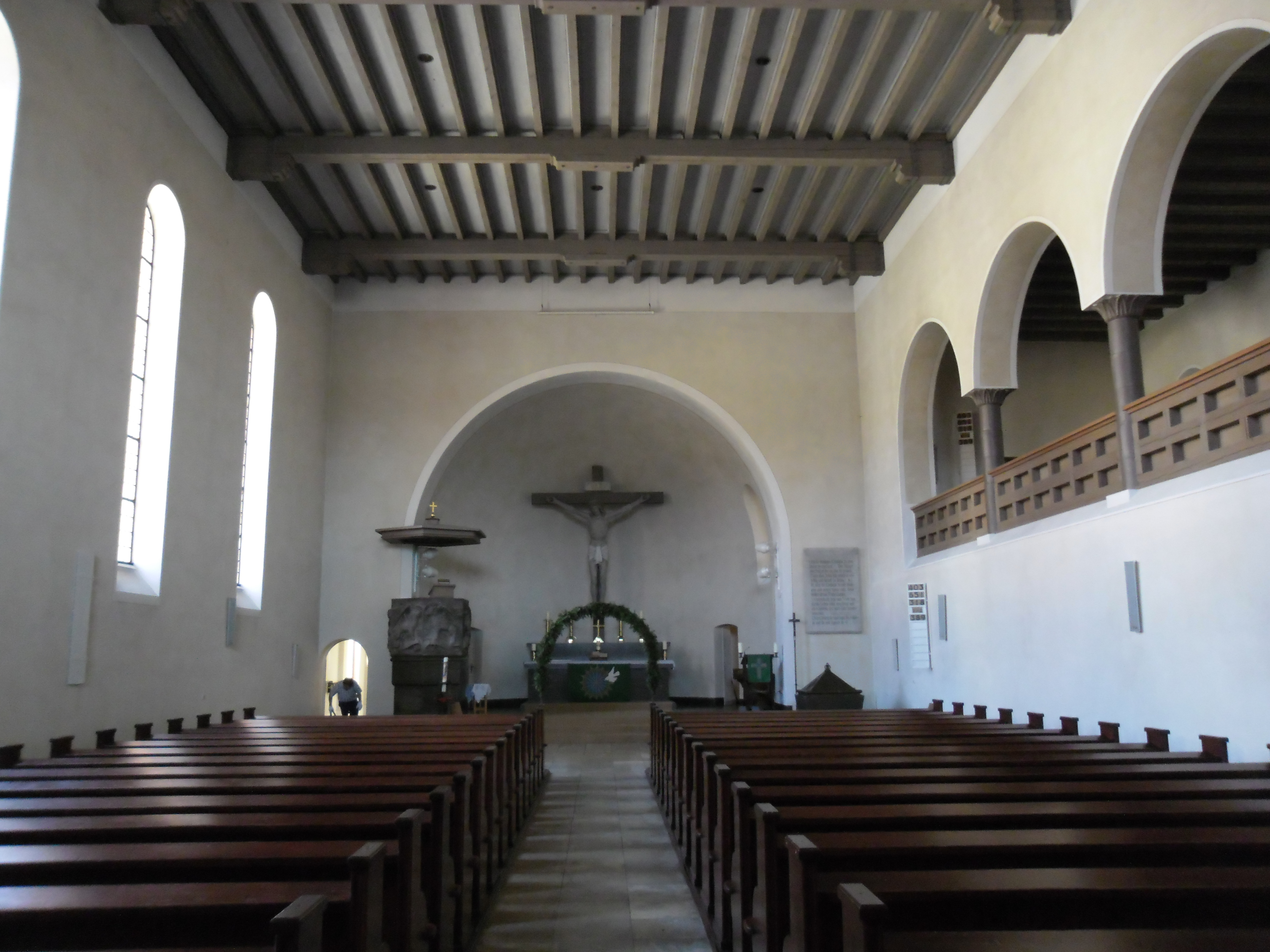 St. Martin's Church in Bruckberg in Middle Franconia, built by Christian Ruck from Nuremberg in 1935